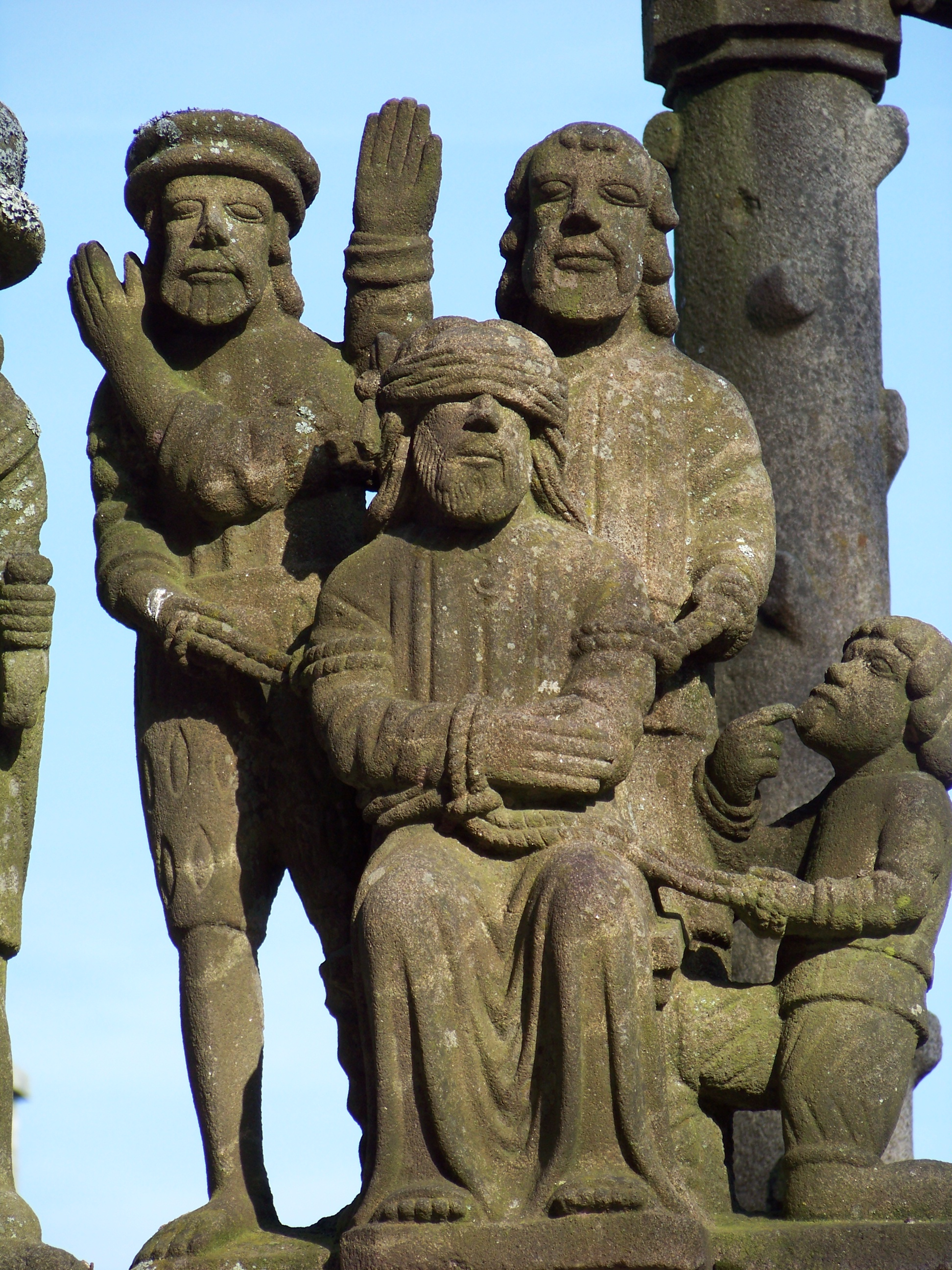 Flagellation of Christ, The calvary, Plougastell Daoulaz, Finistere, Brittany .